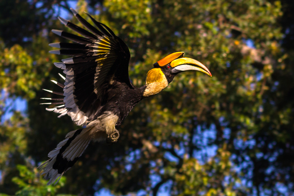 A male on flight, Western Ghats, India